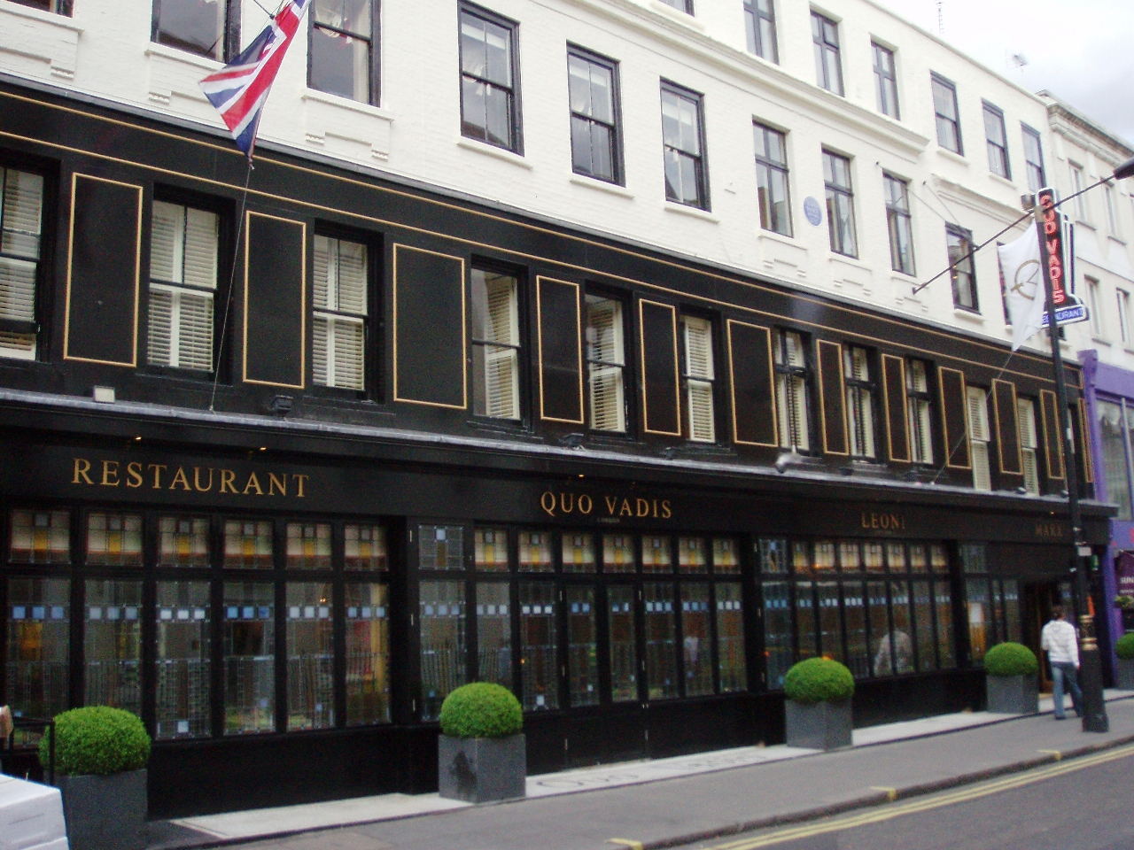 A long-standing Soho venue restaurant, above whose premises Karl Marx used to live (though not while it was a restaurant, mind). (More recent photo of it, under new management, with new reviews.)